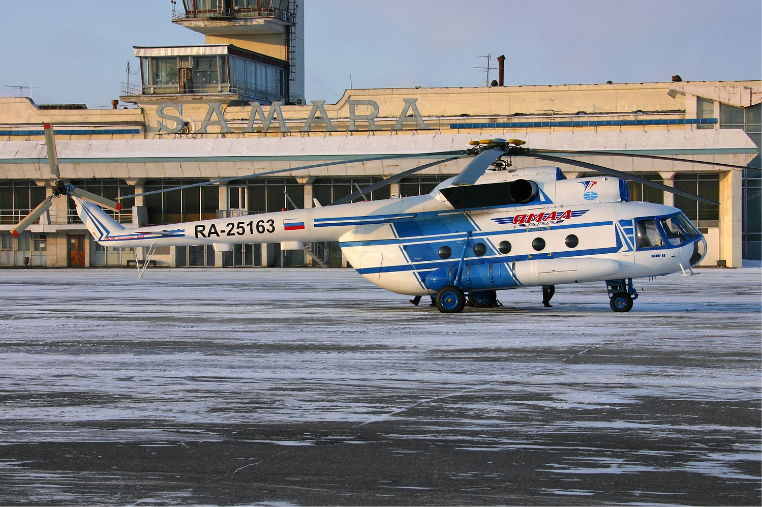 Yamal Air Company Mil Mi-8T